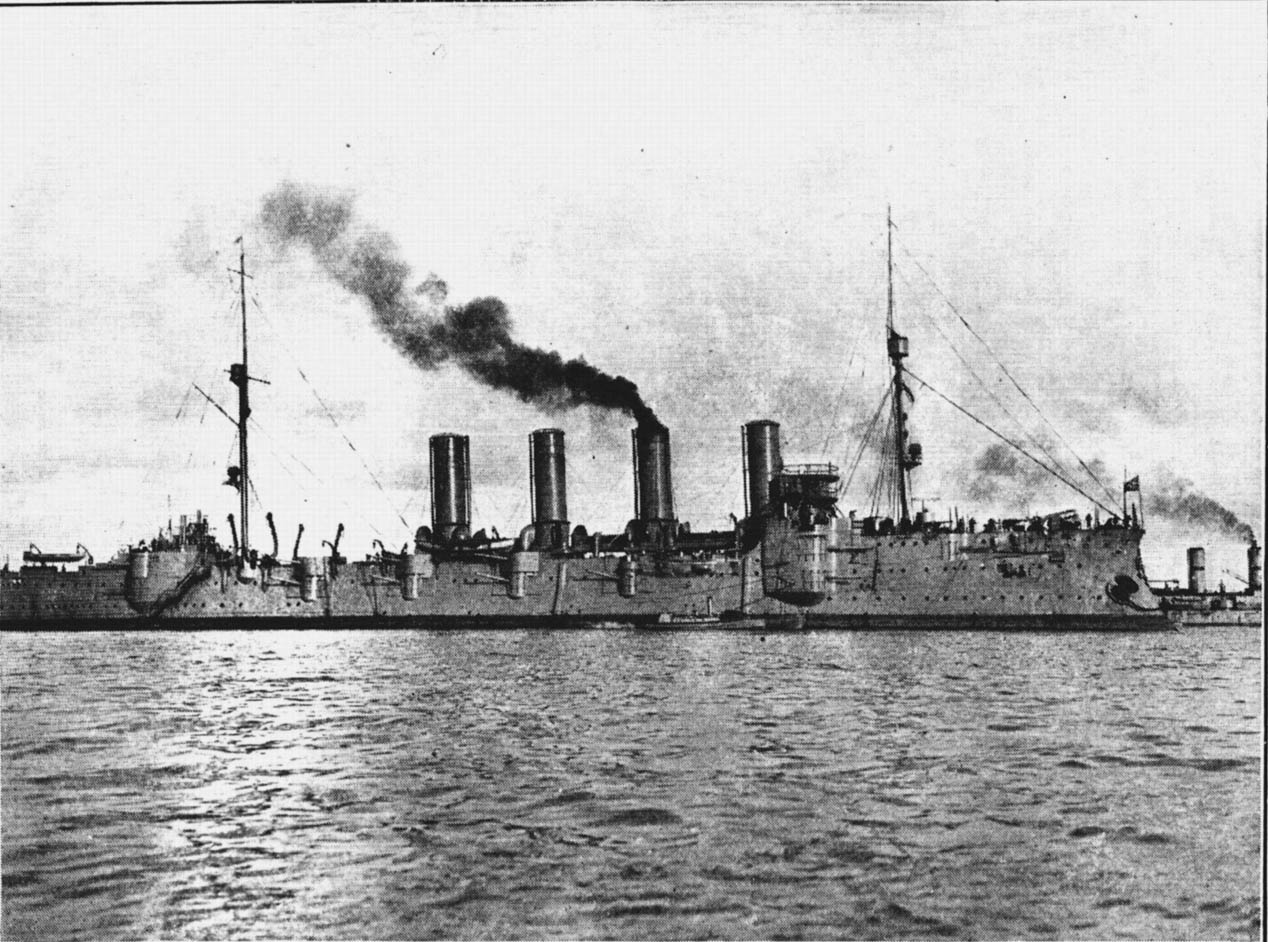 Imperial Russian armoured cruiser Gromoboi after modernization.